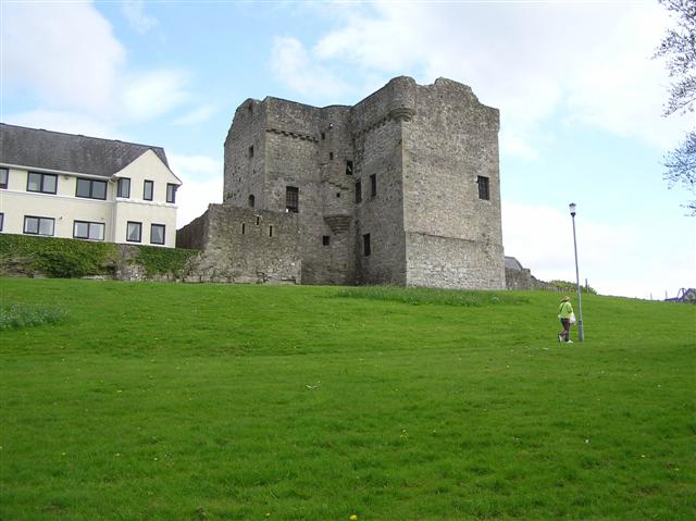 Balfour Castle, Lisnaskea A view to the rear